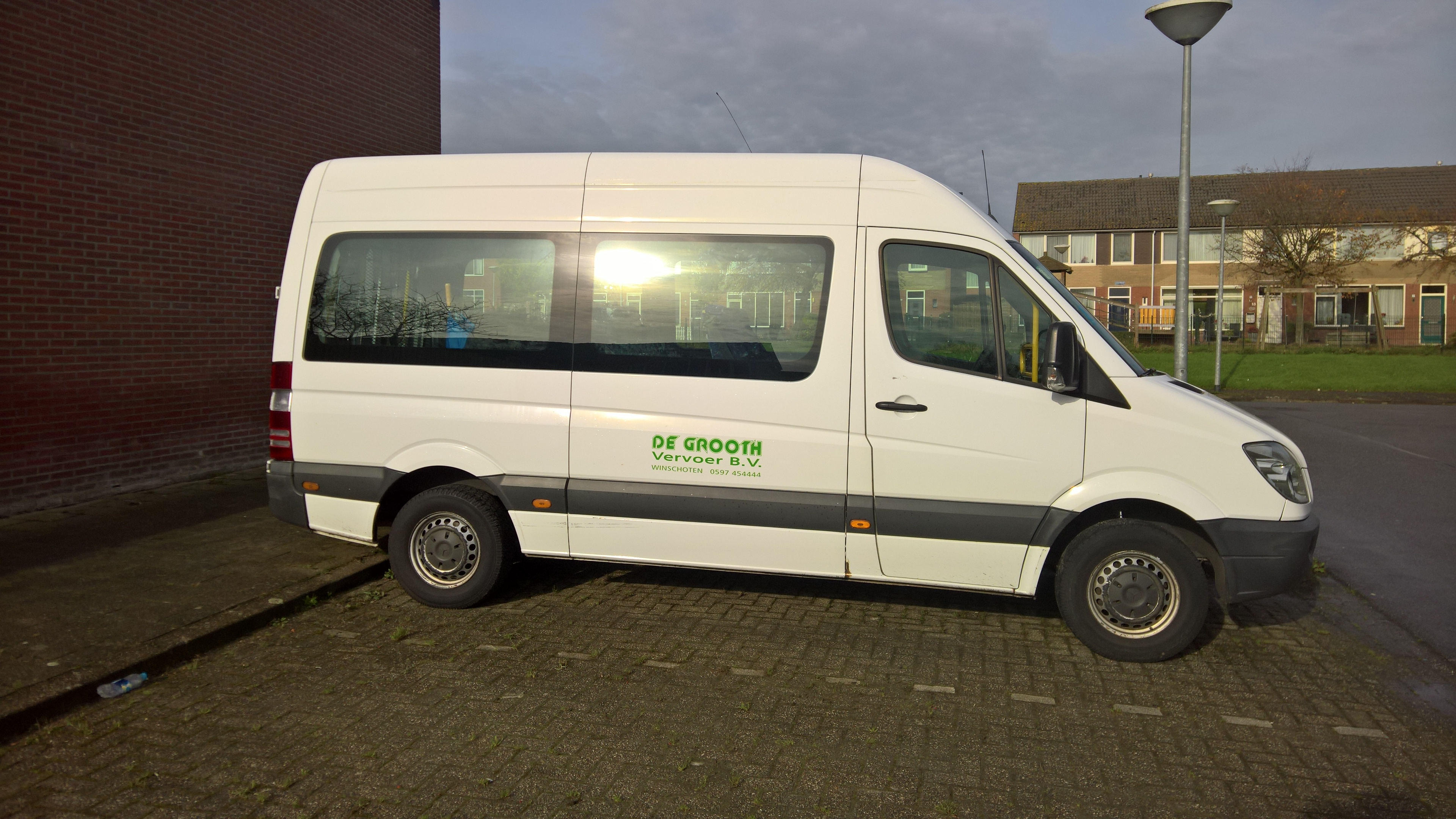 A De Grooth taxi 🚕 bus for the elderly, handicapped people, and mentally challenged children.